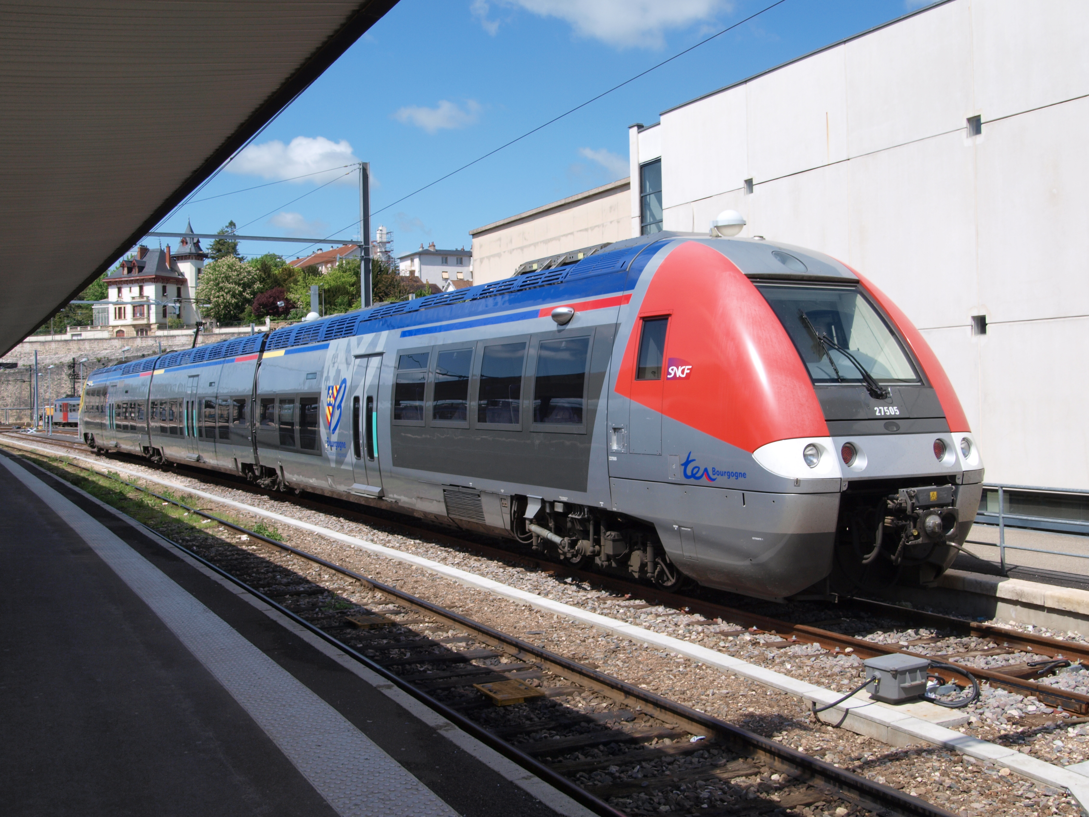 Photographed in France. (EMU means electric multiple unit.)